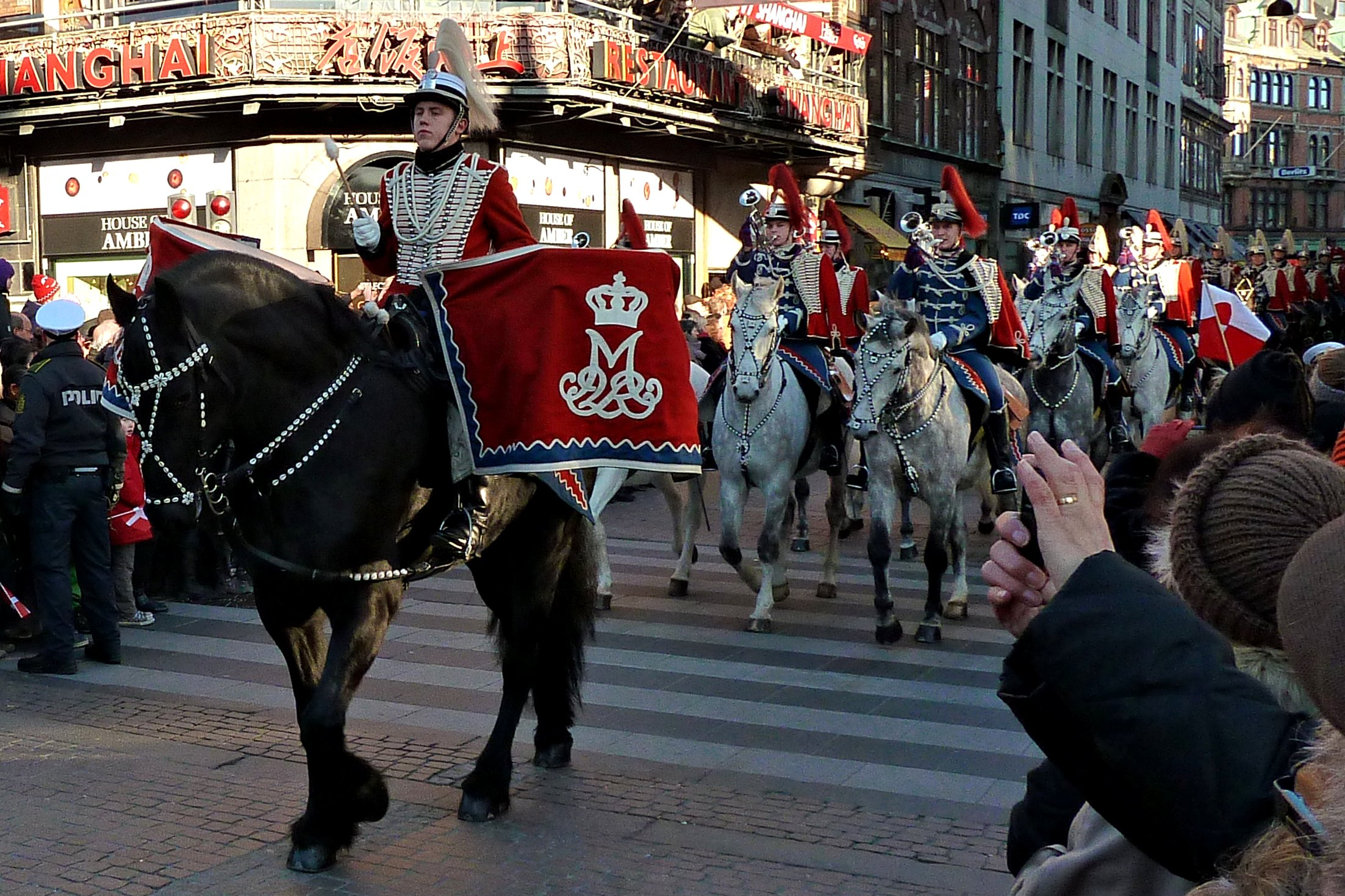 The band of the Guard Hussar Regiment at the public celebration of Queen Magrethe II of Denmark.